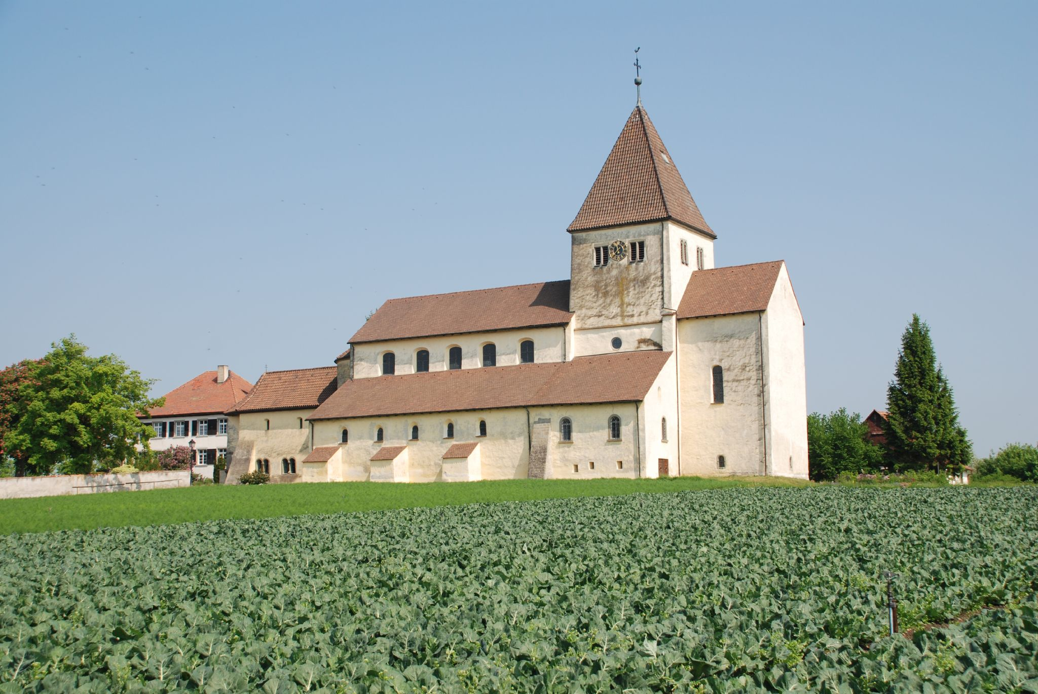 Saint Georg, Reichenau, Germany